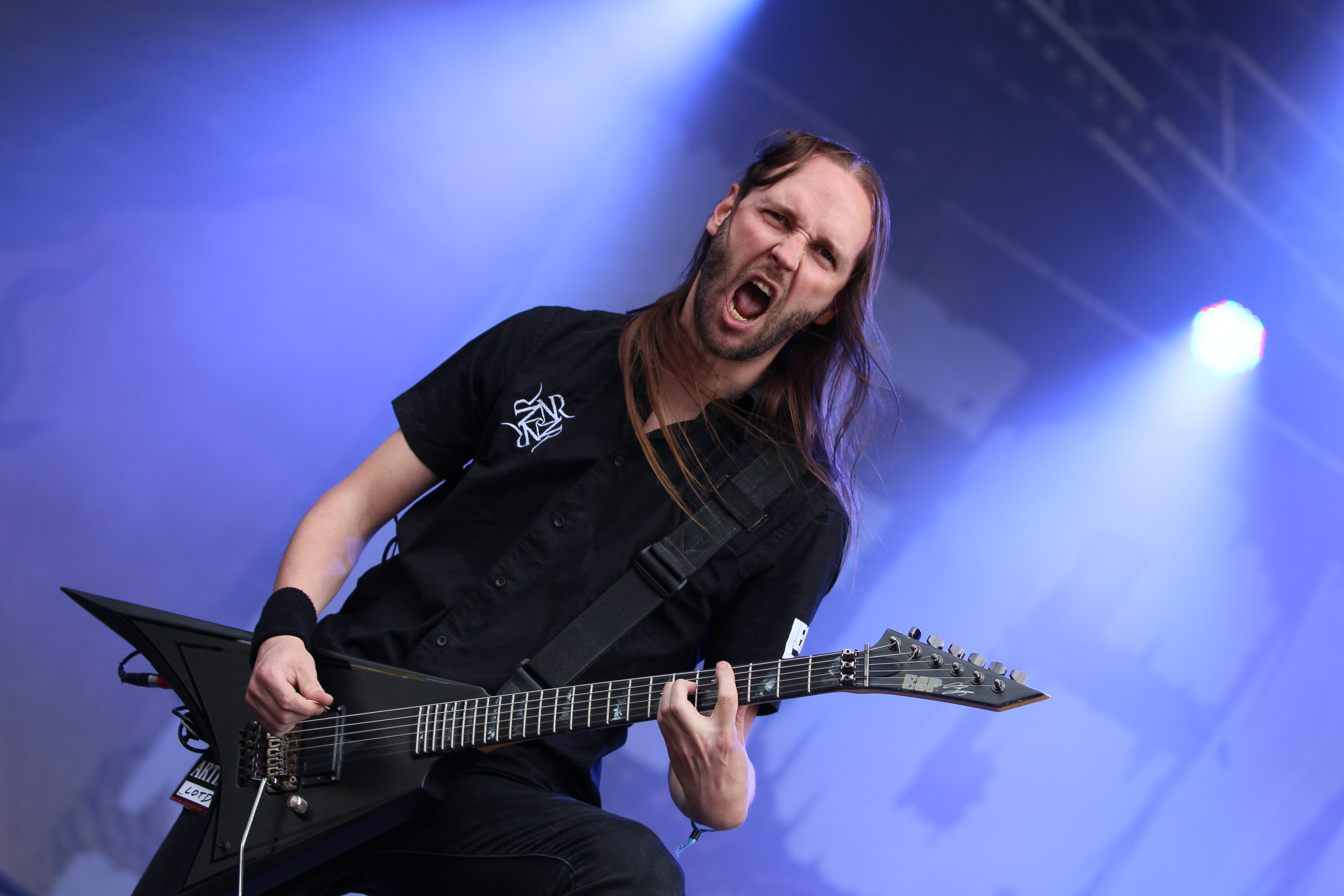 The Dutch death metal/thrash metal band Legion of the Damned at the Rockharz Open Air 2014 in Ballenstedt/Germany